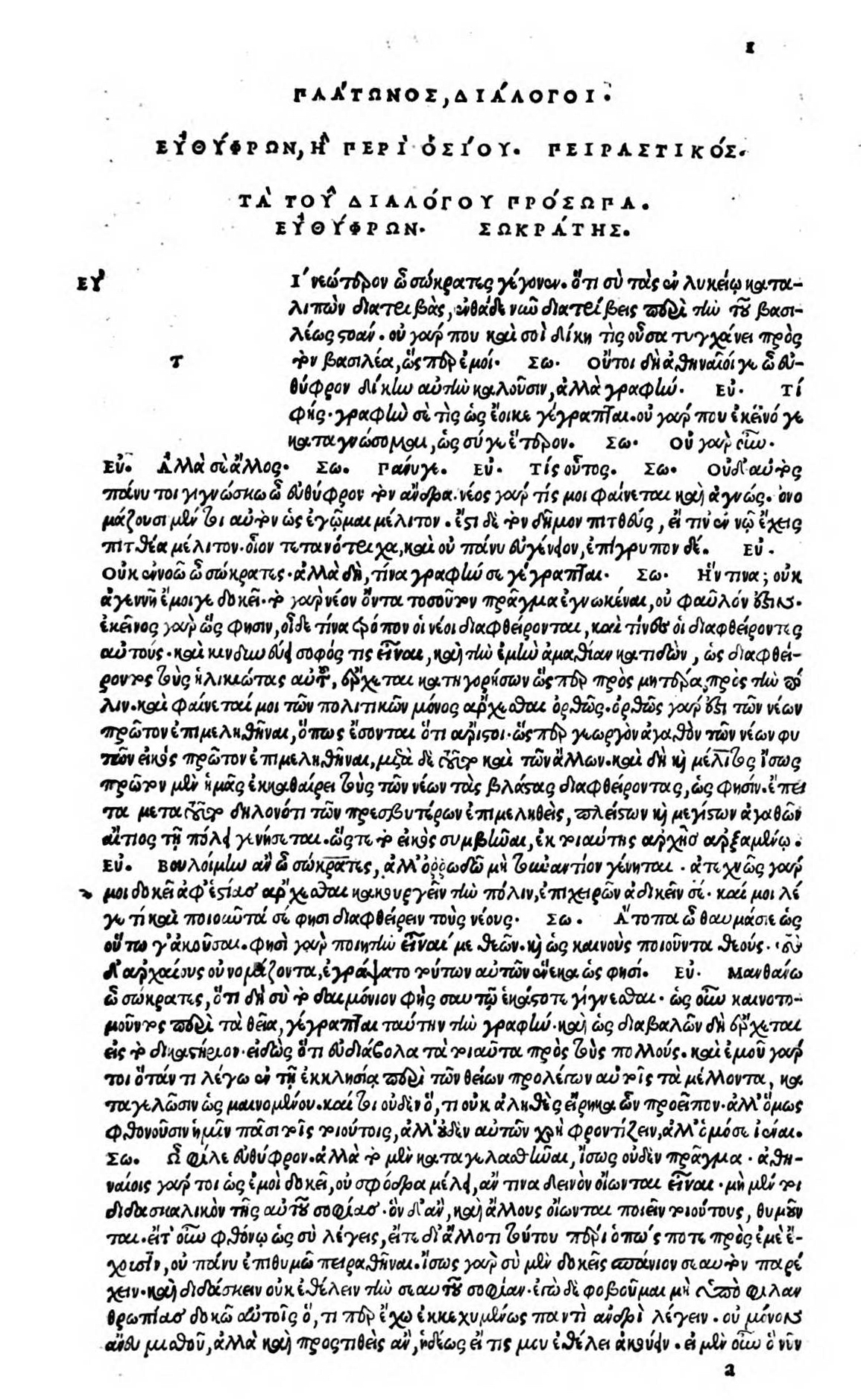 Euthyphron beginning. Editio princeps, Venice 1513.